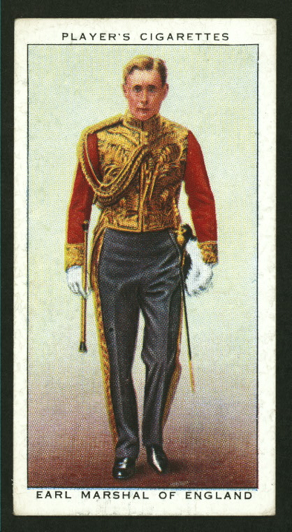 Player's cigarettes. Coronation series, ceremonial dress: Bernard Fitzalan-Howard, 16th Duke of Norfolk, the Earl Marshal